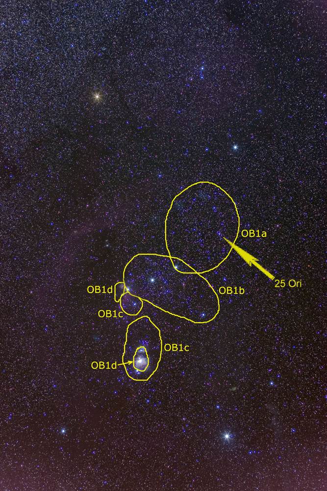 A derivative work which points out the location of the 25 Orionis subgroup within the Orion OB1 Association